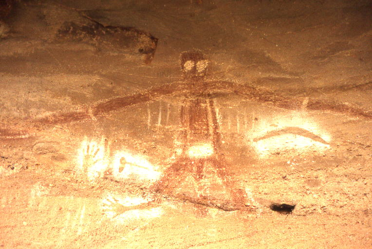 Aboriginal painting, Baiame Cave, near Broke, New South Wales, Australia